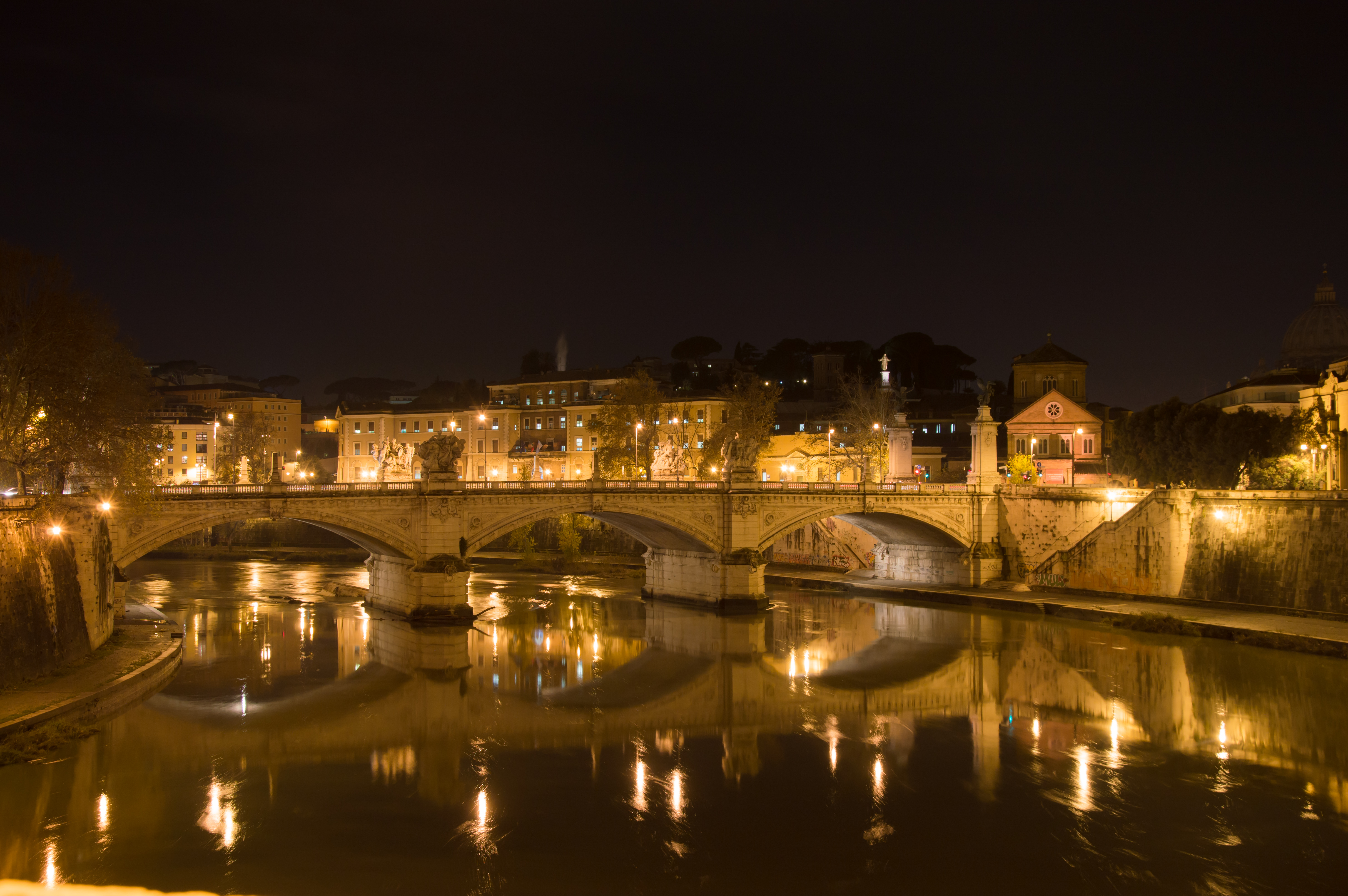 Bridge Vittorio Emanuele II at Night